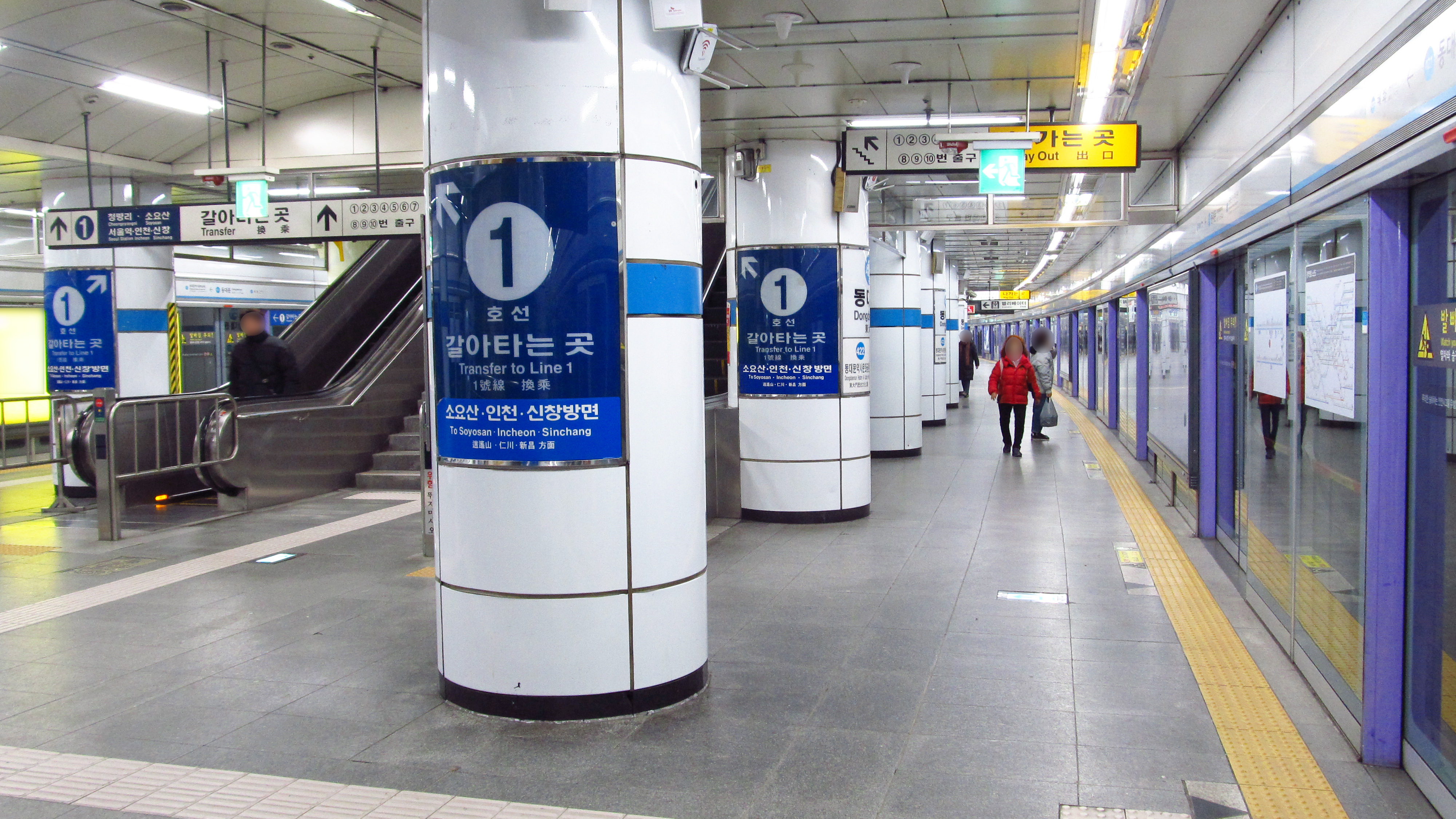 The platform at Dongdaemun Station on Seoul Subway Line 4 in Jongno-gu, Seoul, Republic of Korea(South Korea)